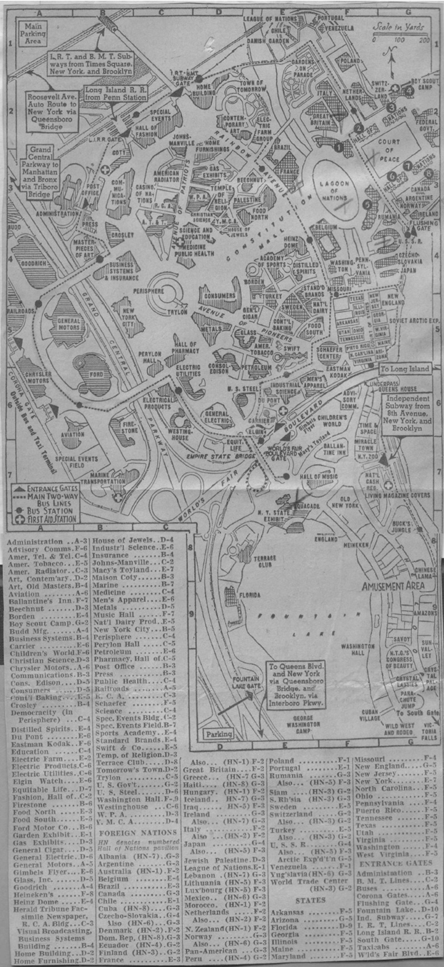 Map of the 1939 World's Fair in New York that shows the location of Exhibits and access to the Fair by Train, Bus, and Automobile.